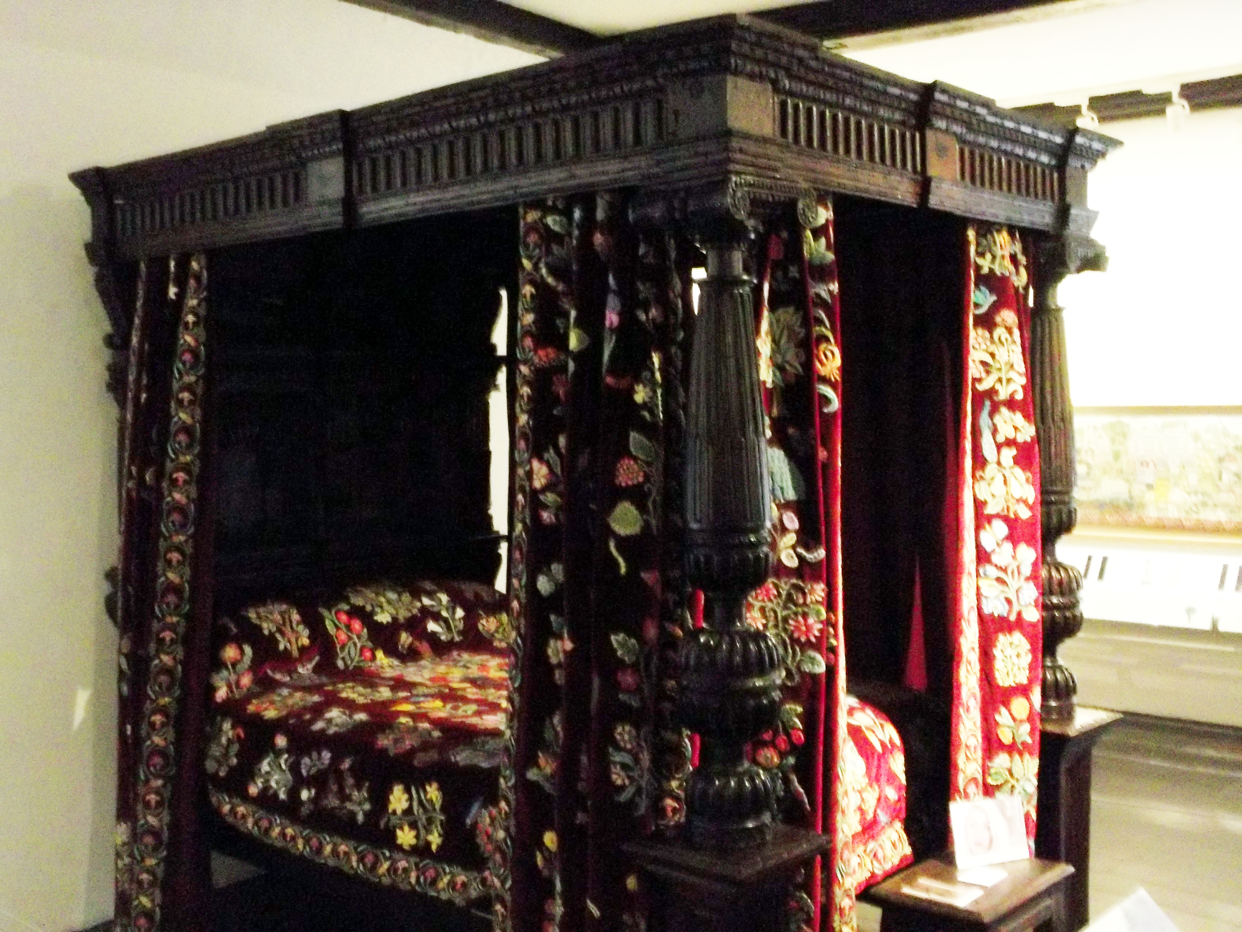 Bed, thought to belong to Richard Corbet (died 1606) of Moreton Corbet, Shropshire. Shrewsbury Museum and Art Gallery.